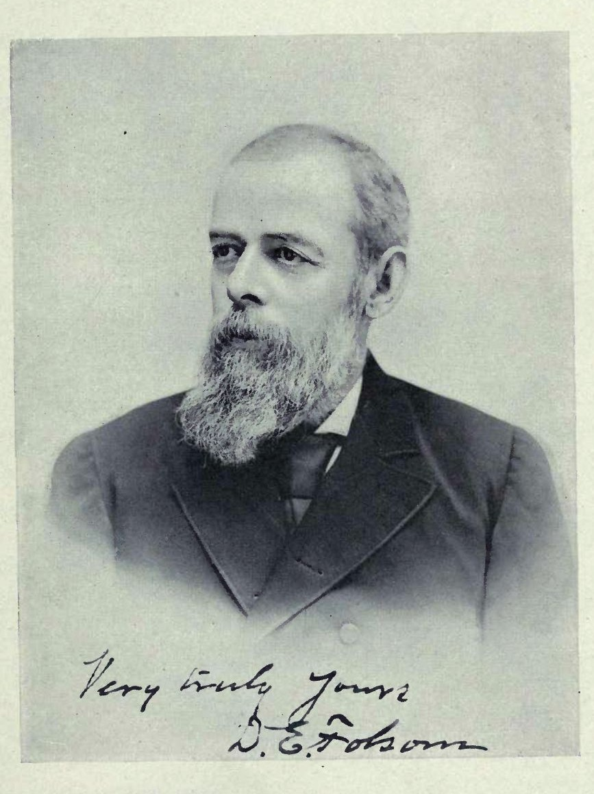 David E. Folsum of the Folsum Expedition (1869) to Yellowstone